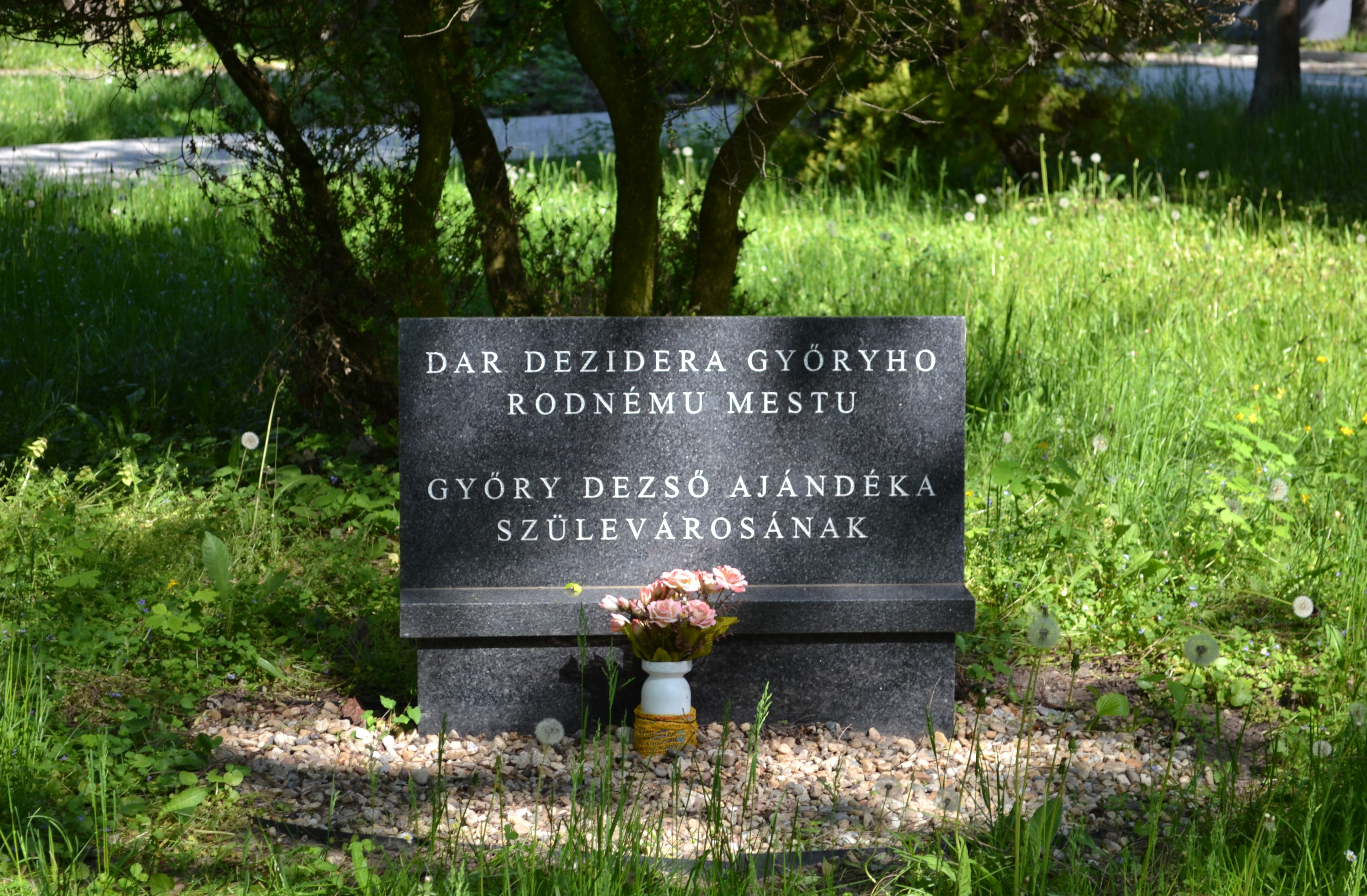 Memorial plaque - Dezső Győry donated hometown